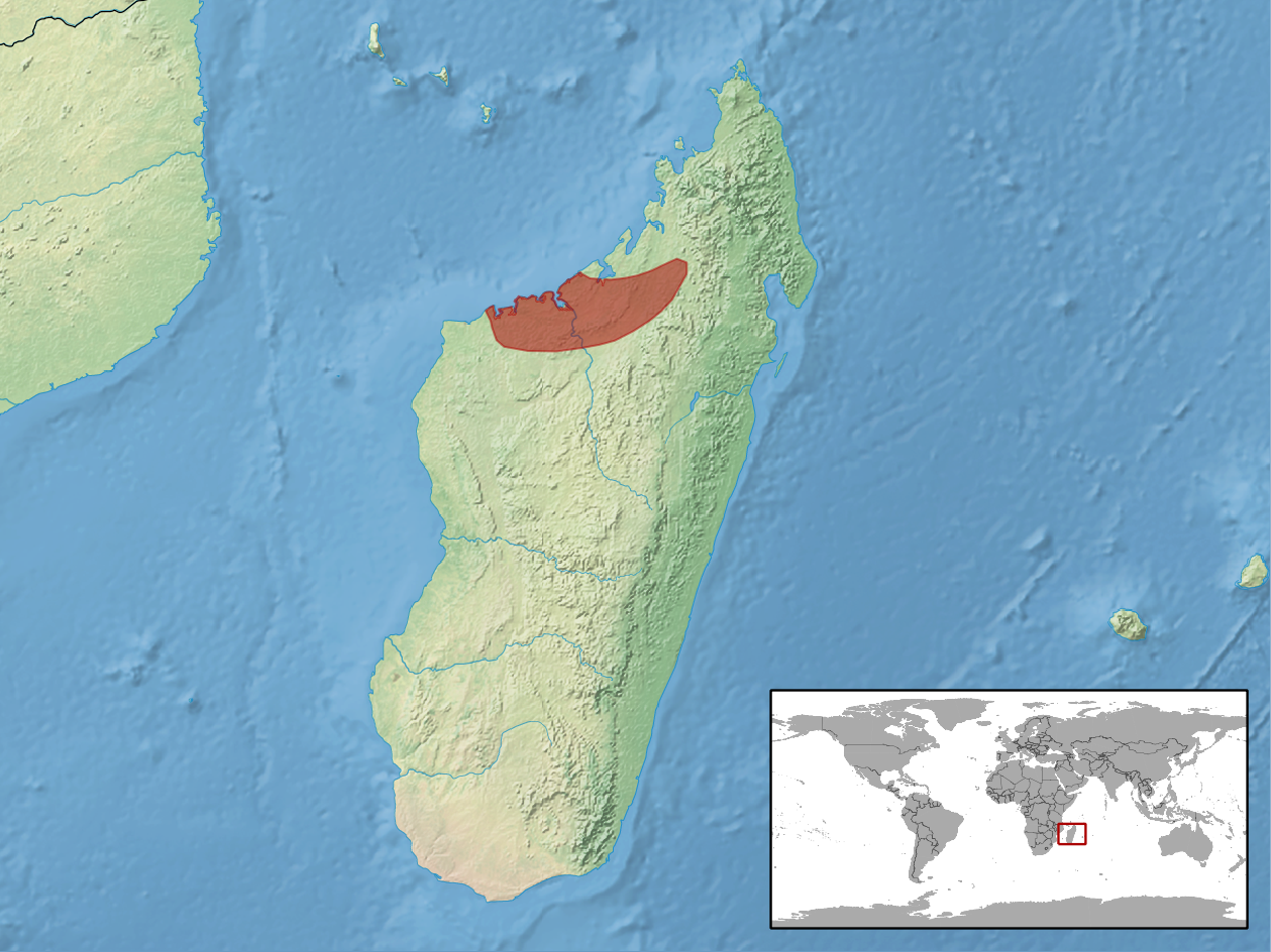 geographic distribution of Furcifer angeli (Native: Madagascar)